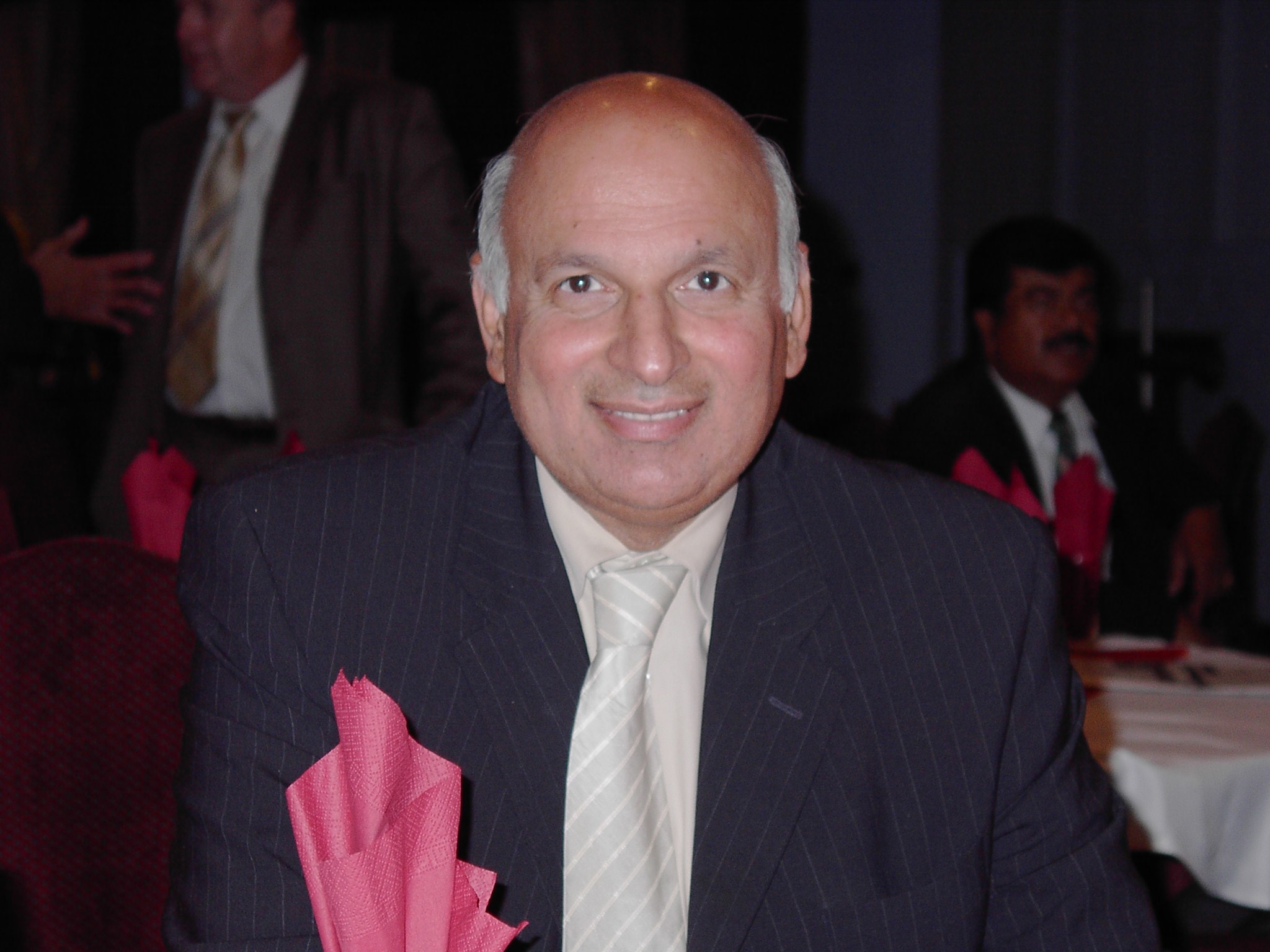 Mohammed Sarwar MP